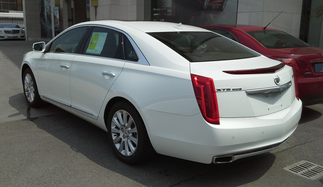 Cadillac XTS photographed in Shanghai, China.